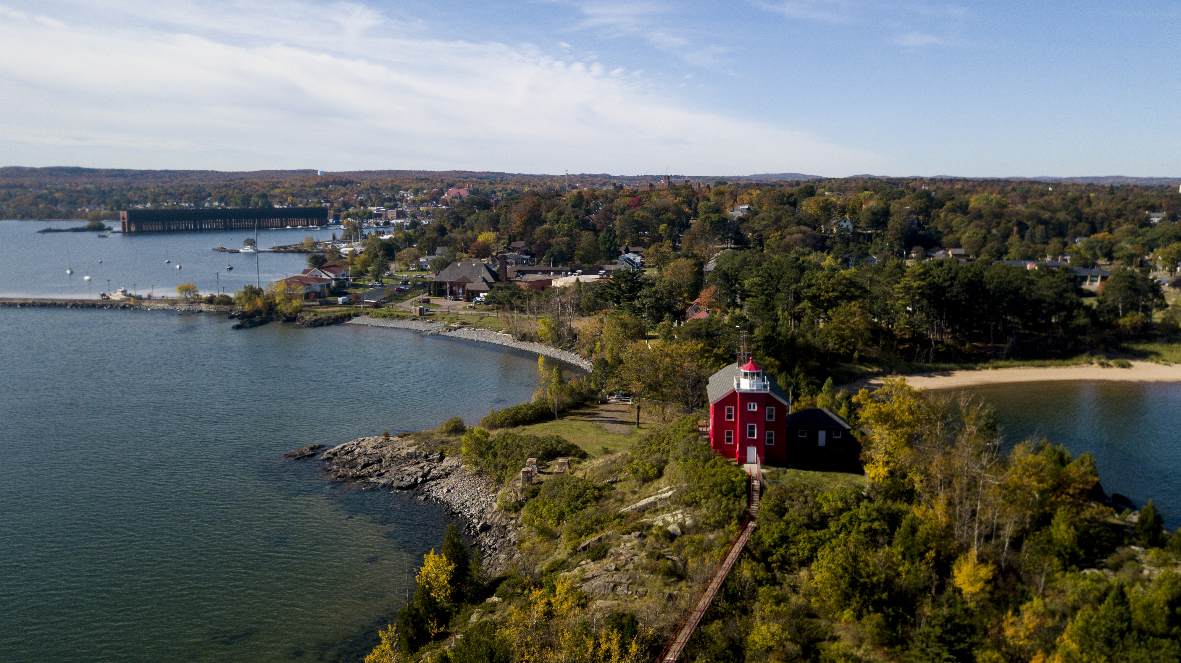 Marquette, Michigan Harbor Light - facing west with Marquette in the background.